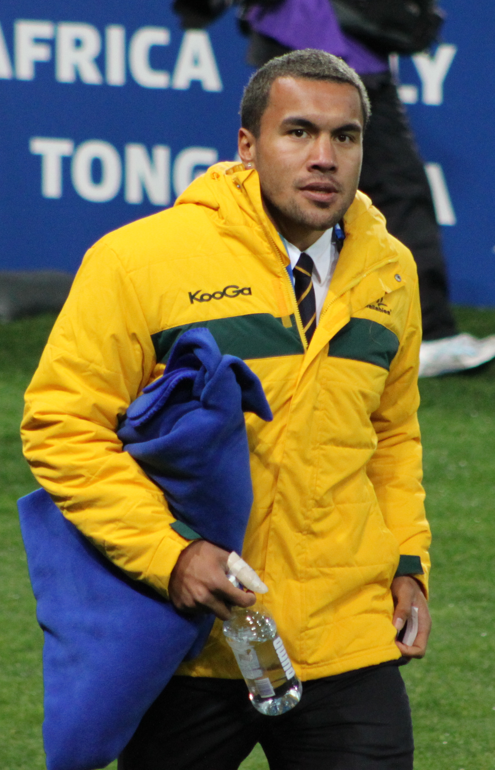 Australian rugby union player Digby Ioane before World Cup match against USA.